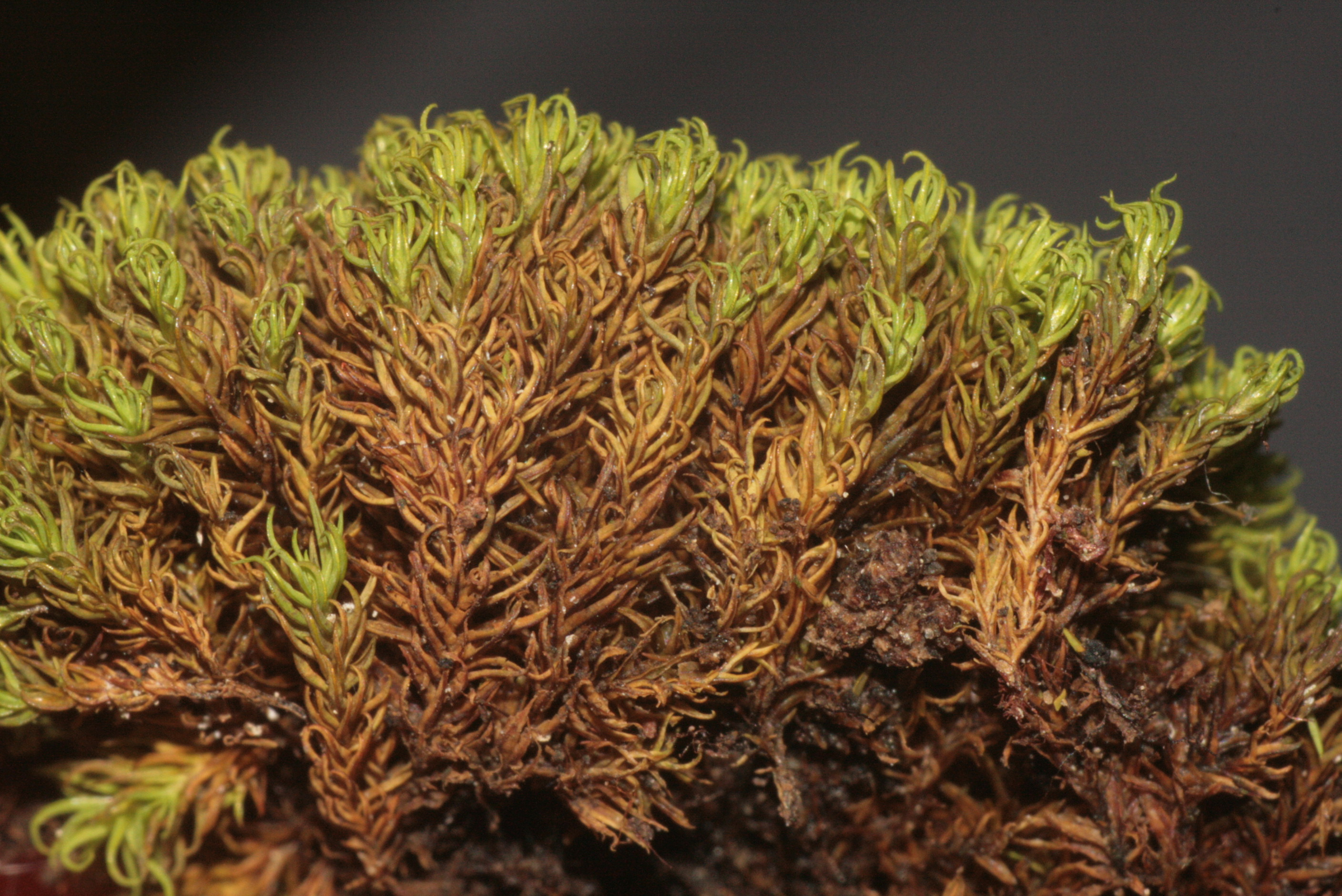 Trichostomum crispulum